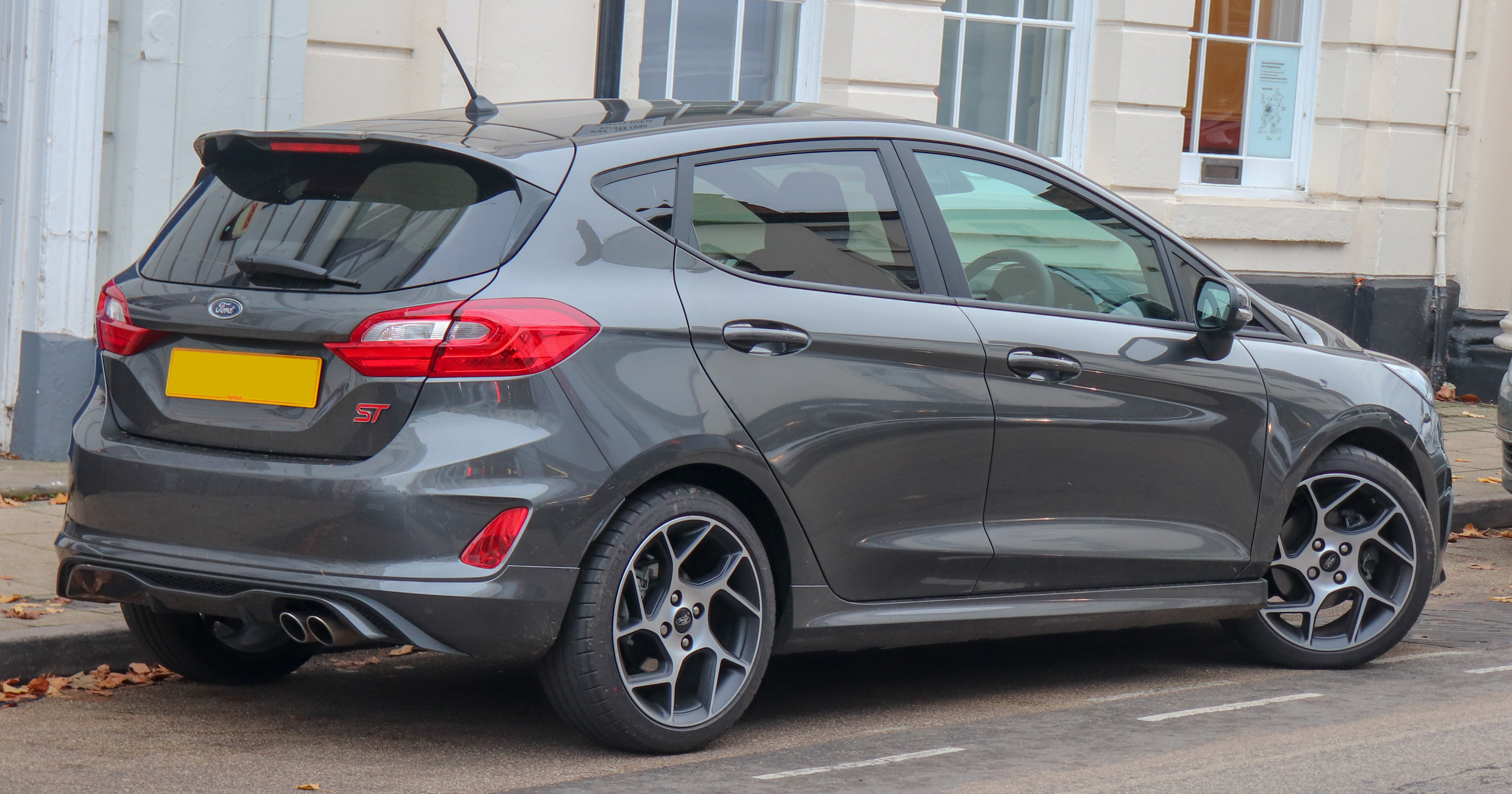 2018 Ford Fiesta ST-2 Turbo 1.5 Rear Taken in Warwick